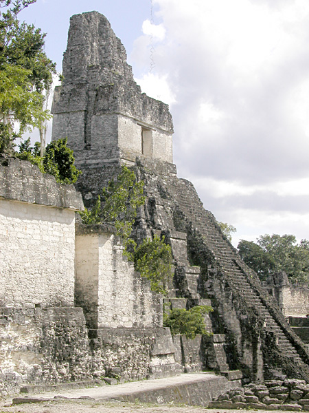 Pyramid, Tikal, Guatemala. Image taken by Clark Anderson/Aquaimages. Category:Tikal